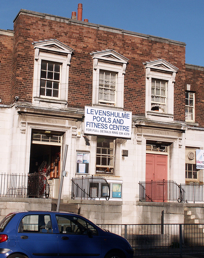 Levenshulme Swimming Baths, Barlow Road, Levenshulme, Manchester. 5 October 2007. Taken by WebHamster using a Minolta DiMAGE 7Hi digital camera. For use in the Levenshulme article.